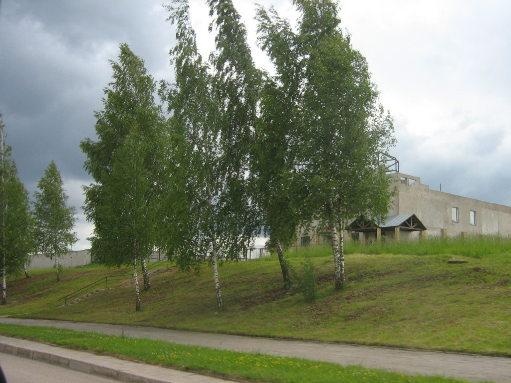 Begging of vasario 16 street